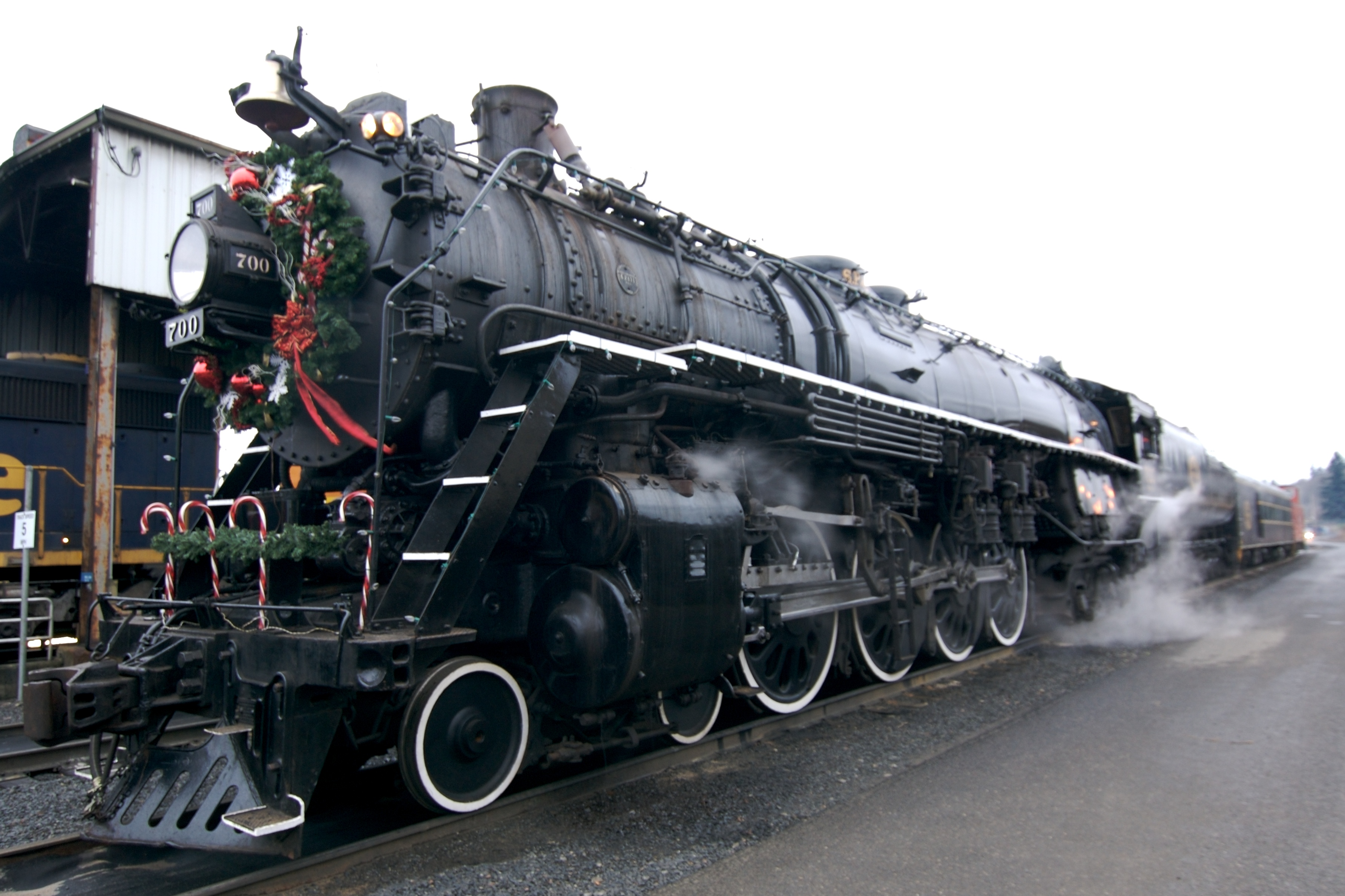 Christmas Train Consist at Vancouver Washington